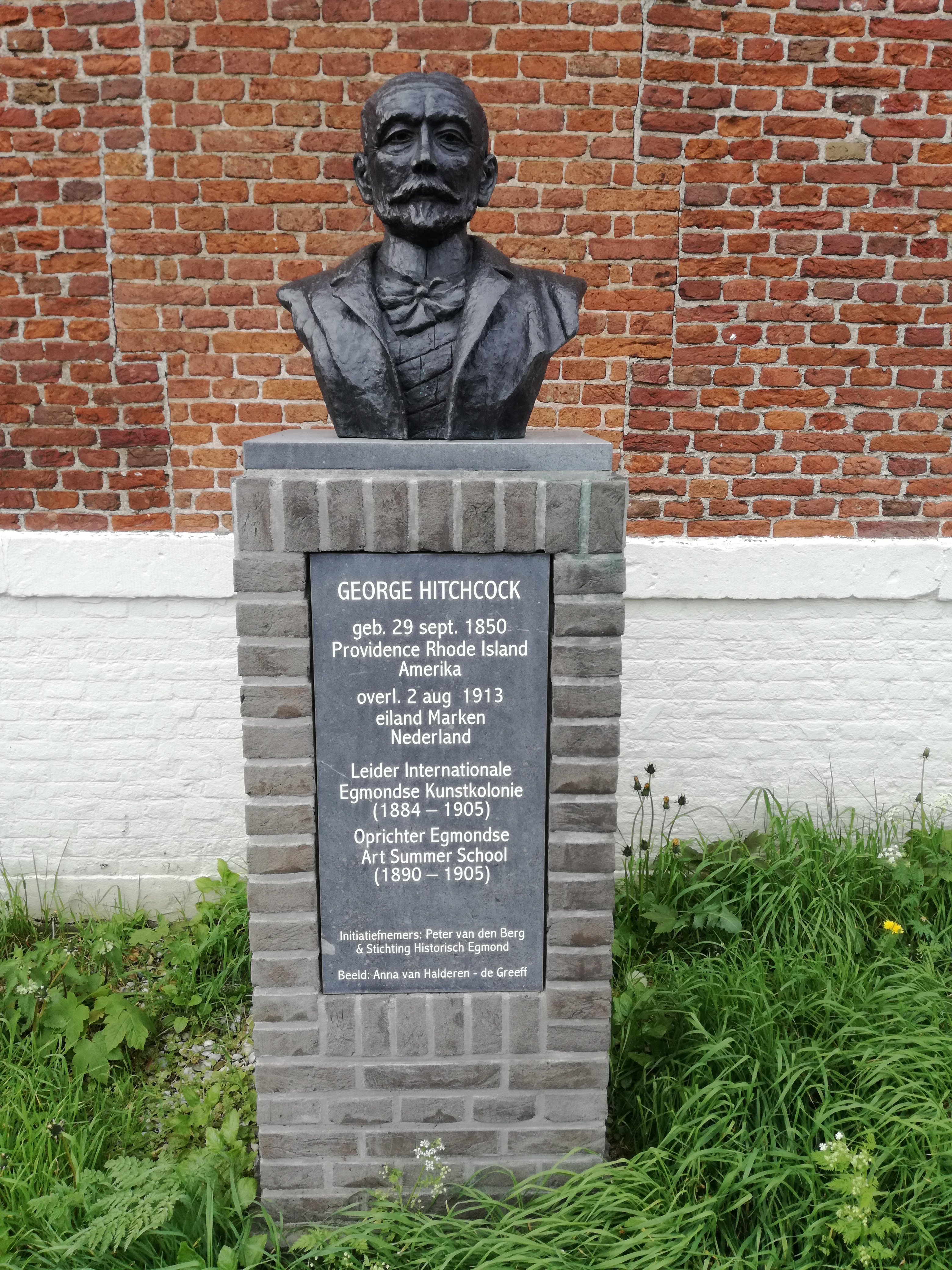 George Hitchcock